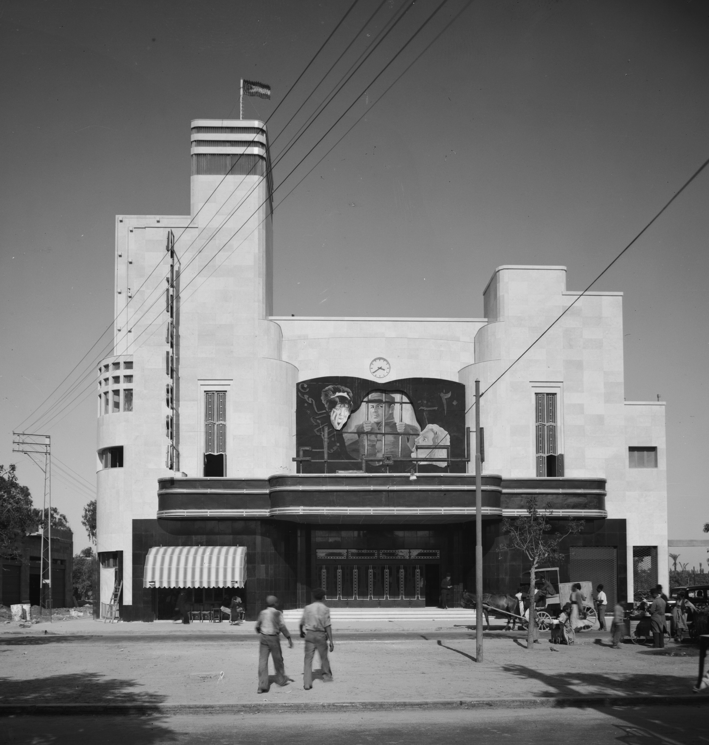 Jaffa. Alhambra Cinema. Arab cinema in Jaffa "Alhambra" Cropped from the original. TITLE: Jaffa. Alhambra Cinema. Arab cinema in Jaffa "Alhambra". CALL NUMBER: LC-M32- 7656[P&P] REPRODUCTION NUMBER: LC-DIG-matpc-03562 (digital file from original photo) RIGHTS INFORMATION: No known restrictions on publication. MEDIUM: 1 negative : glass, dry plate ; 5 x 7 in. CREATED/PUBLISHED: 1937. CREATOR: Matson Photo Service, photographer. NOTES:Title and date from: photographer's logbook: Matson Registers, v. 1, [1934-1939]. On negative sleeve: 3. Gift; Episcopal Home; 1978. SUBJECTS: Israel--Tel Aviv. FORMAT: Dry plate negatives. PART OF: G. Eric and Edith Matson Photograph Collection REPOSITORY: Library of Congress Prints and Photographs Division Washington, D.C. 20540 USA DIGITAL ID:(digital file from original photo) matpc 03562 CONTROL #: mpc2004002498/PP